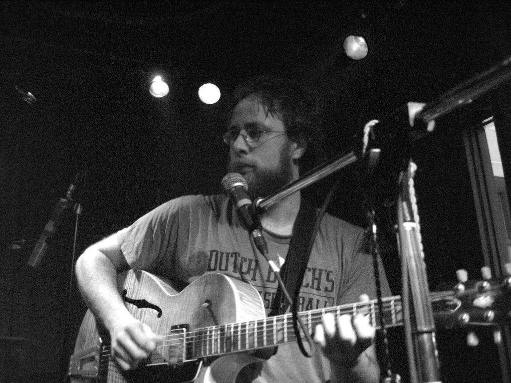 Seth Olinsky from Akron/Family